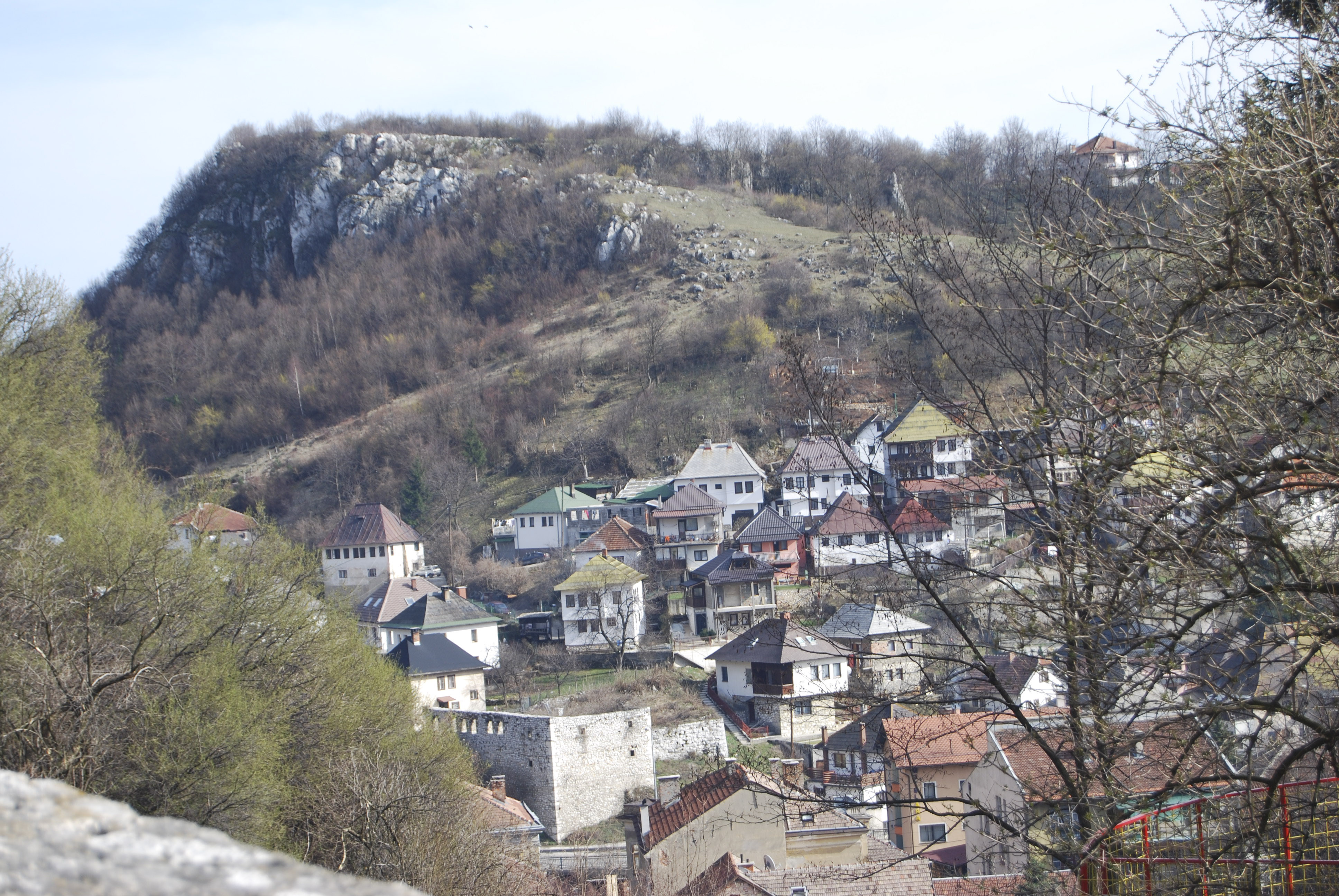 Travnik, Bosnia and Herzegovina